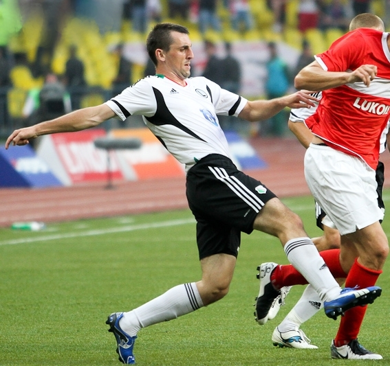 Association football player Michał Kucharczyk from Poland during UEFA Europa League qualification match between Legia Warszawa and Spartak Moscow at Luzhniki Stadium.